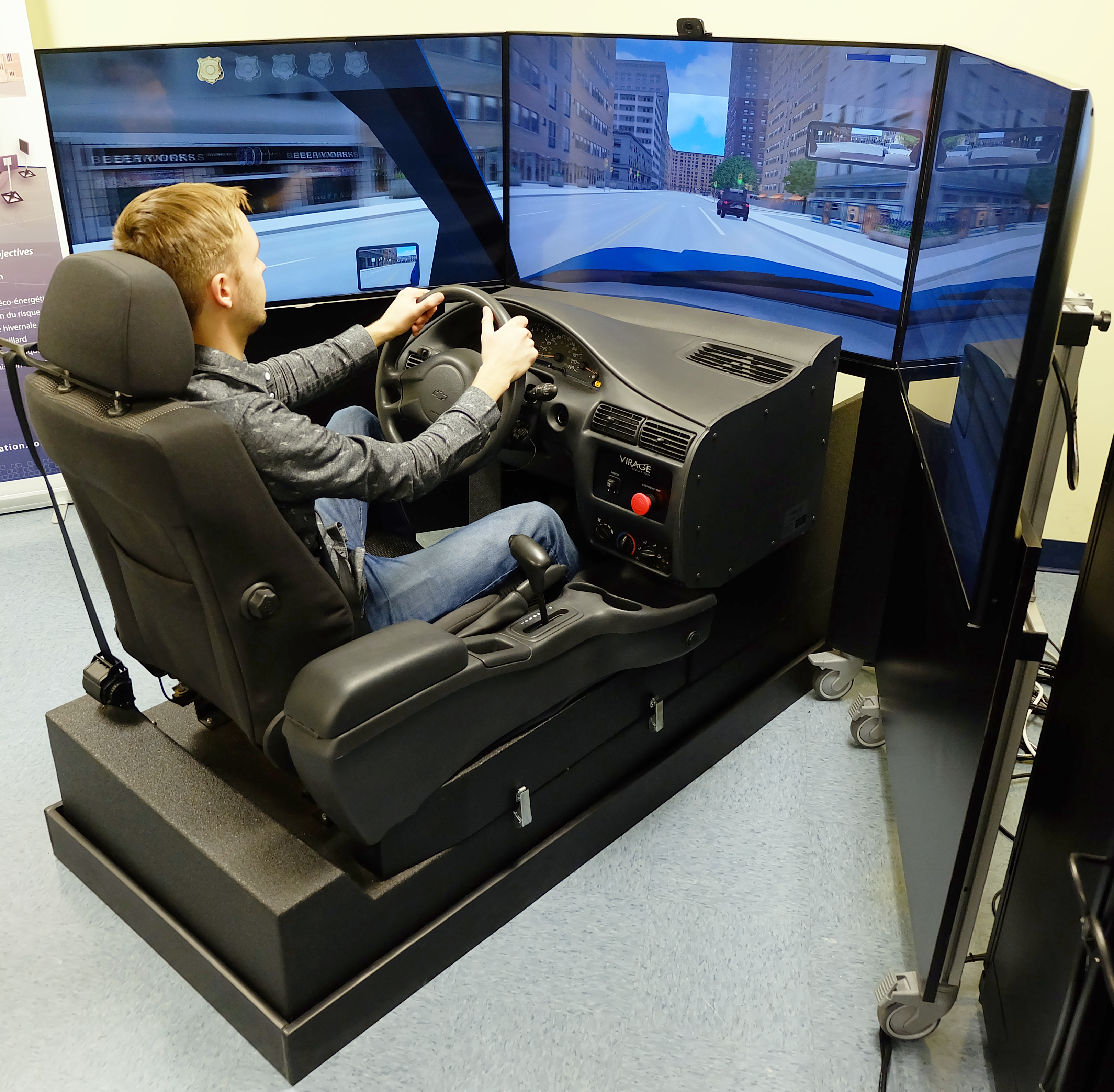 Car simulator developed by Virage Simulation for Quebec driving schools to substitute simulator lessons for on-road lessons for up to 50% of the mandatory program in a study on how to improve novice driver training and driver education funded by the Quebec Insurance Board (SAAQ).